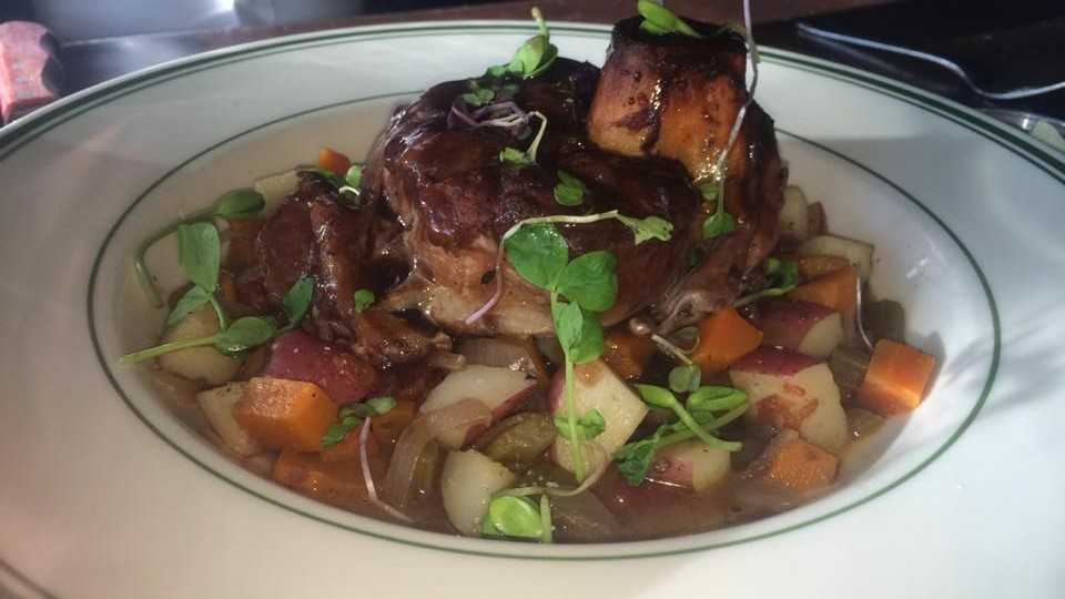 A somewhat modernized version of the traditional Ossobuco at The Tavern restaurant in Tulsa, Okla.